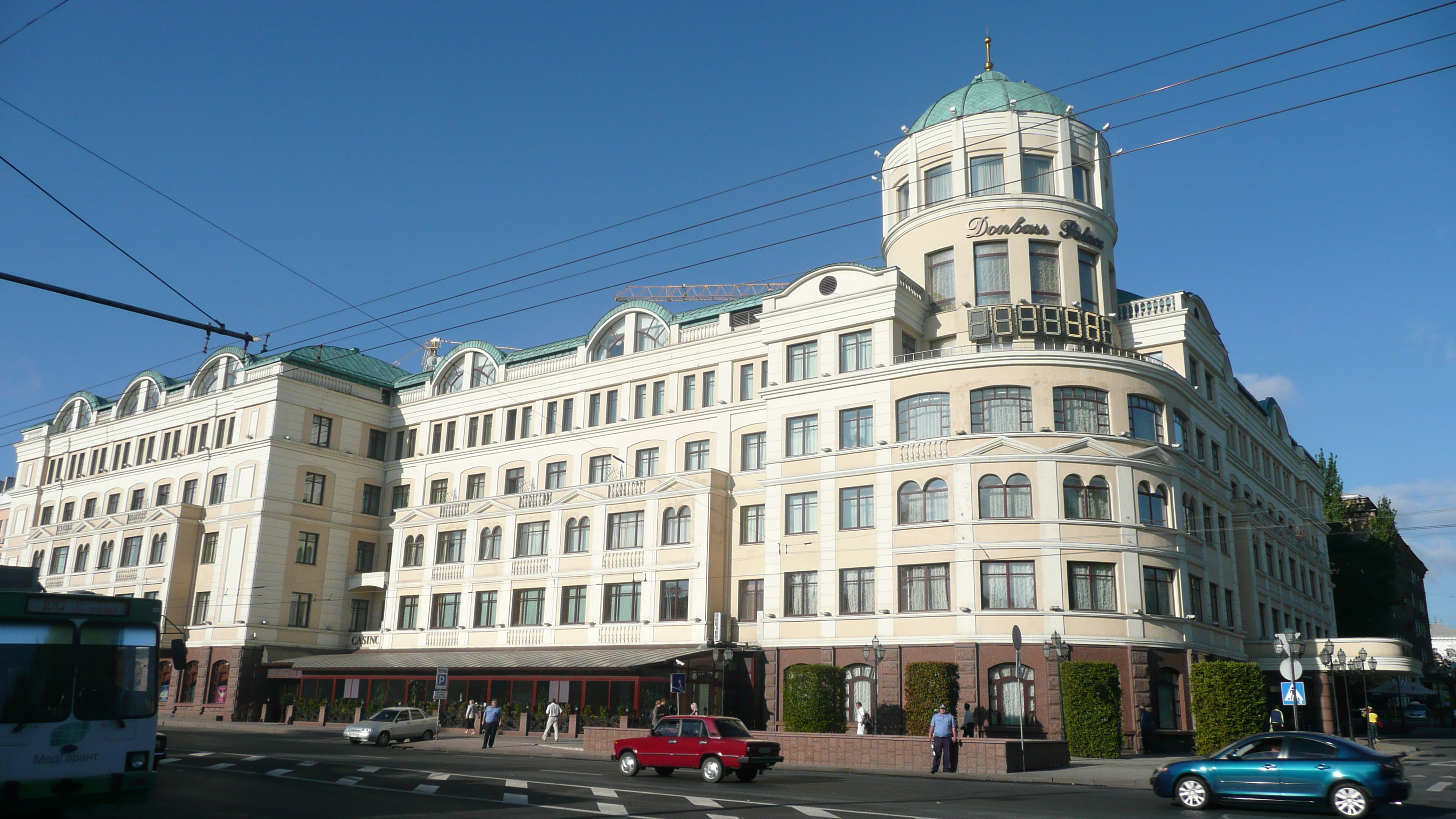 Donbass Palace - A five star hotel in Donezk (Ukraine)